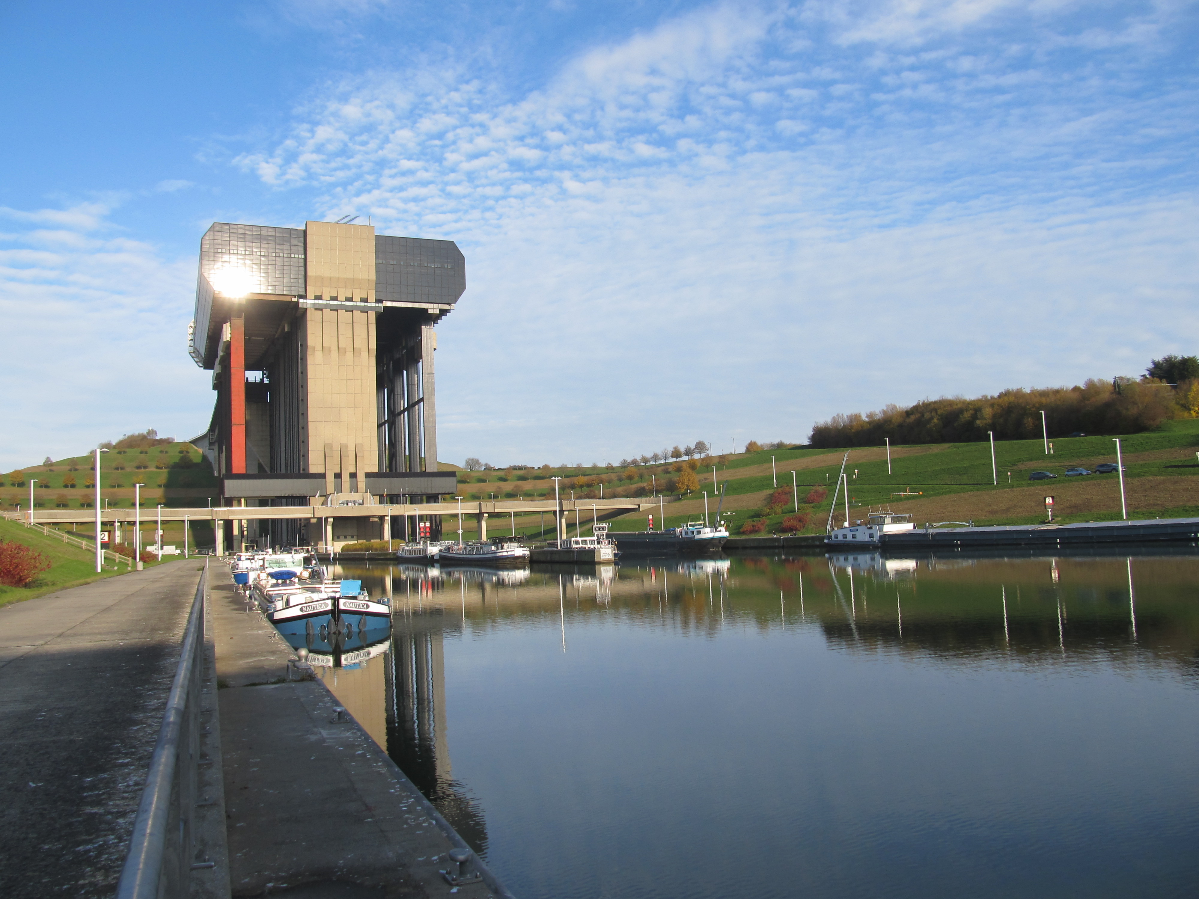 Strépy-Thieu boat lift on the Canal du Centre in Belgium.